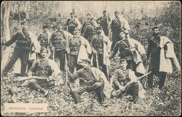 Andart band of Konstantinos Dais (Κωνσταντίνος Νταής - Τσάρας) - Tsaras from Greek struggle for Macedonia